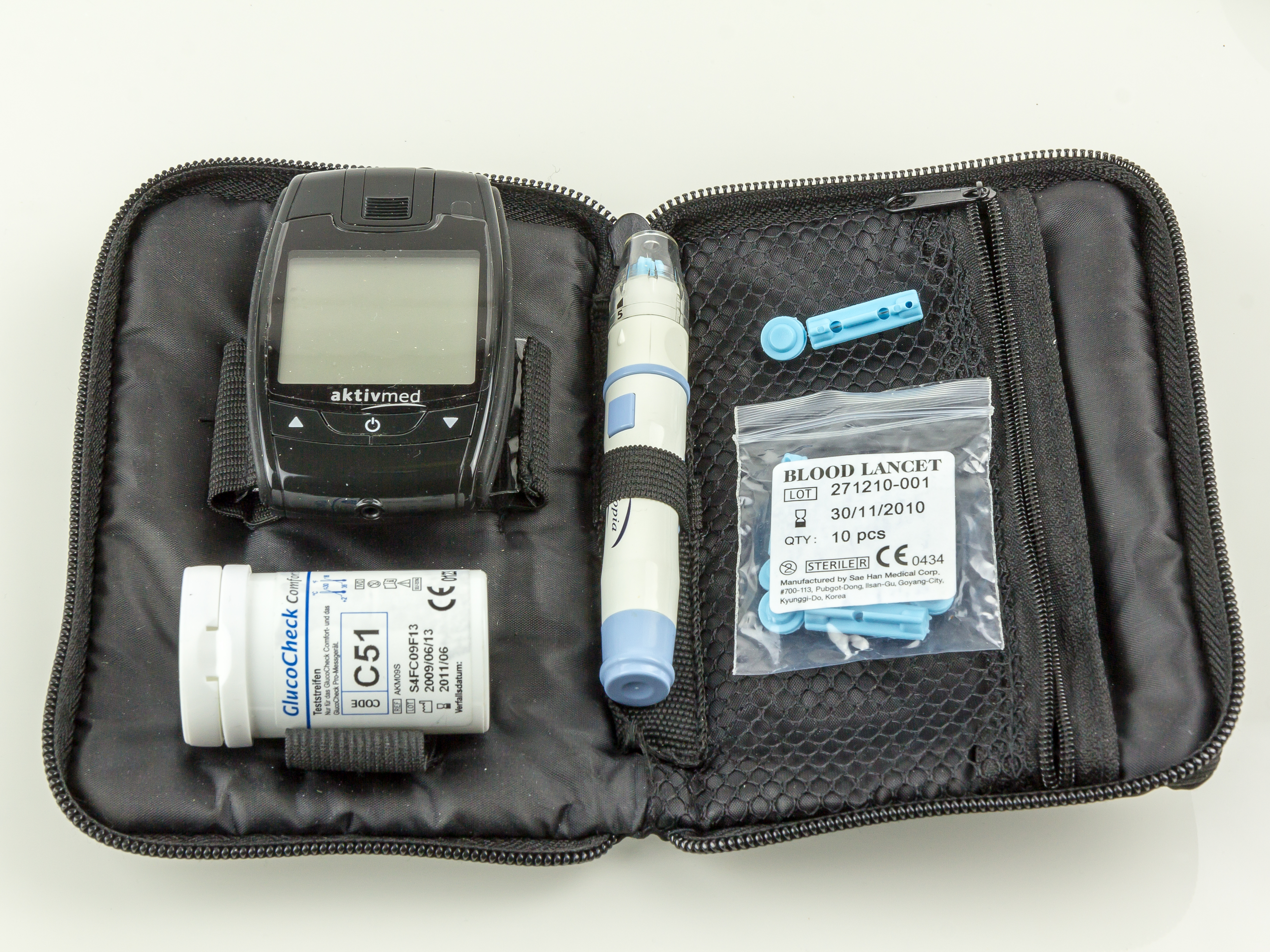 Aktivmed GlucoCheck Comfort - Glucose meter in a case with blood lancets and test strips